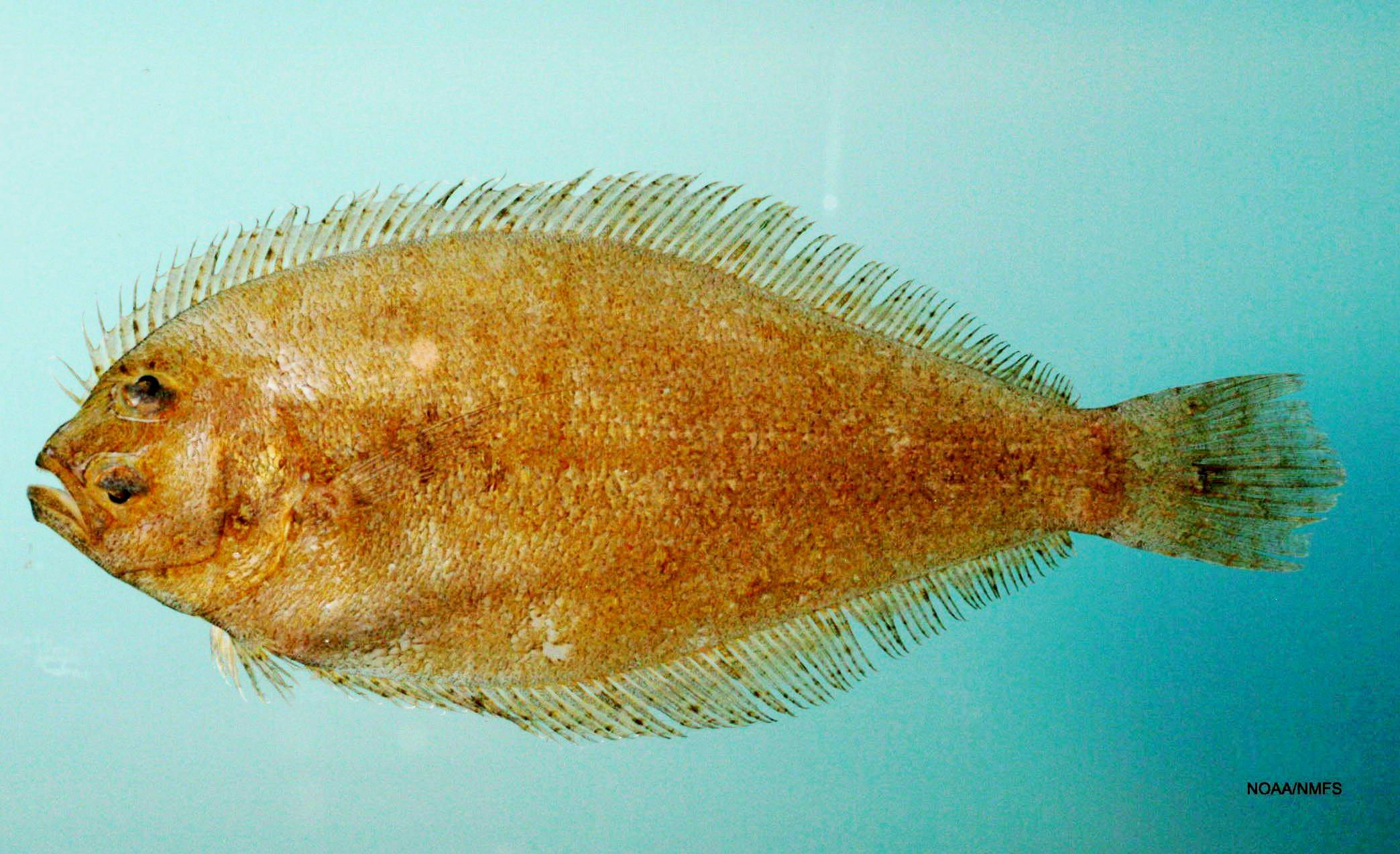 Dusky flounder ( Syacium papillosum ). Gulf of Mexico.